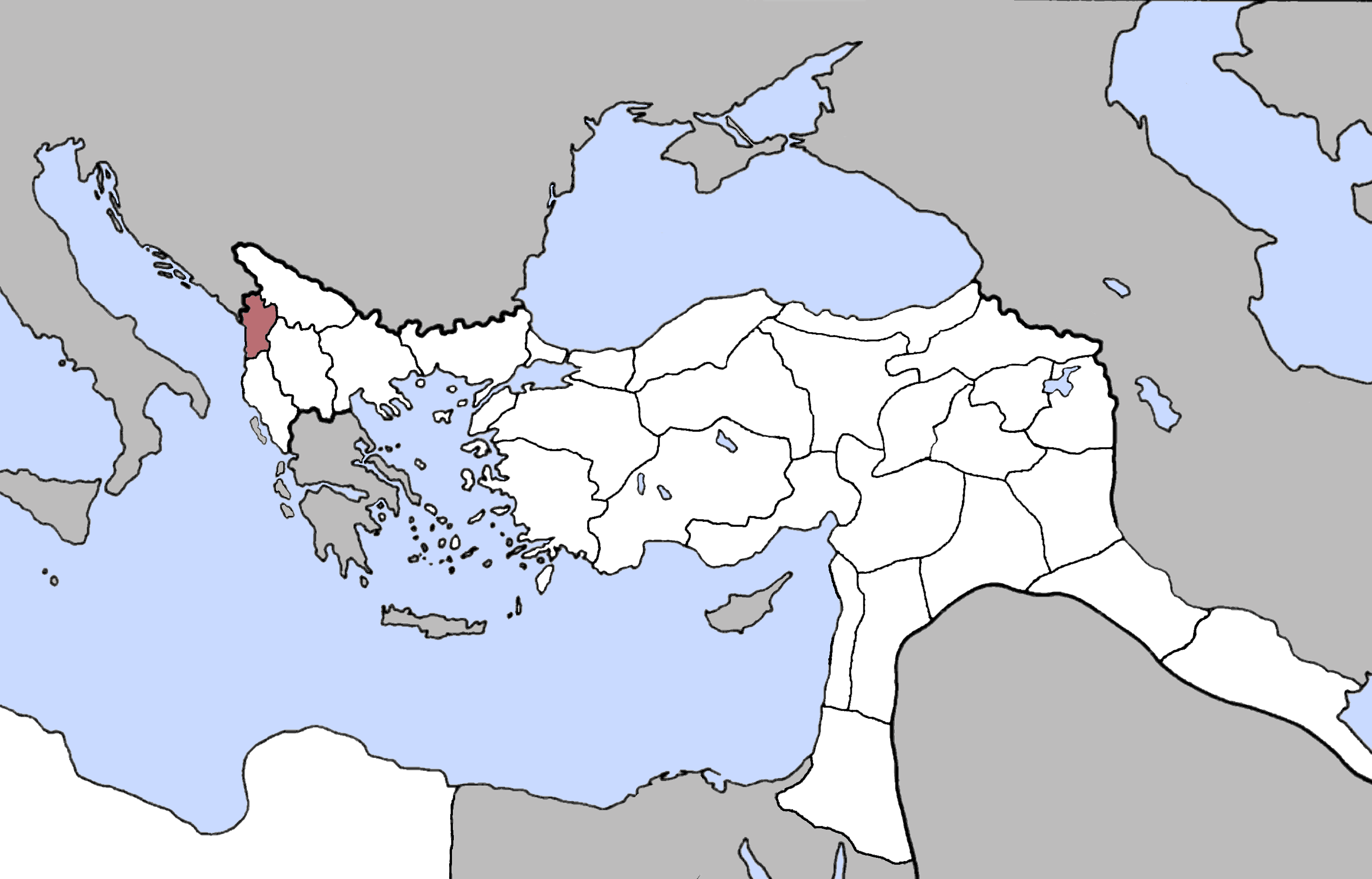 XY Vilayet, Ottoman Empire (1900). Source: An Economic and Social History of the Ottoman Empire, Volume 2 at Google Books By Suraiya Faroqhi, Bruce McGowan, Donald Quataert, Sevket Pamuk